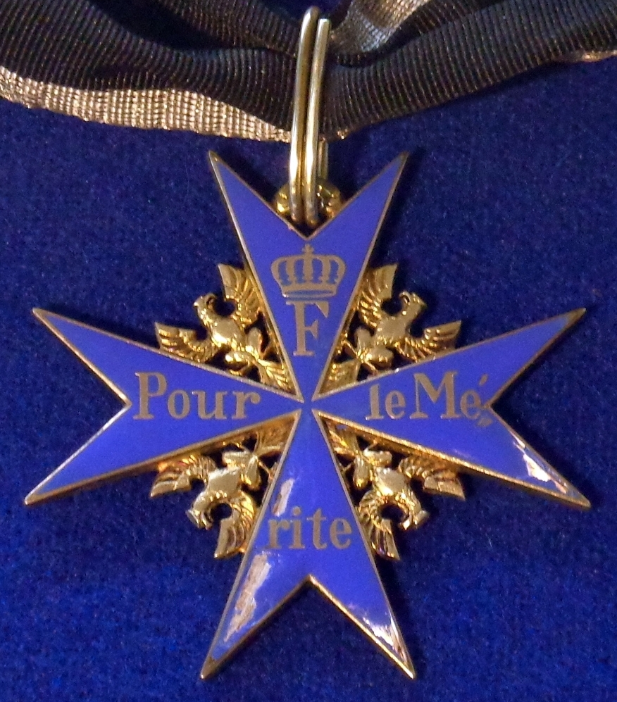 Pour le Mérite (Order For Merit), badge, military division, 1914-1918. Kingdom of Prussia. The exhibition of the Tallinn Museum of Orders of Knighthood, Estonia.